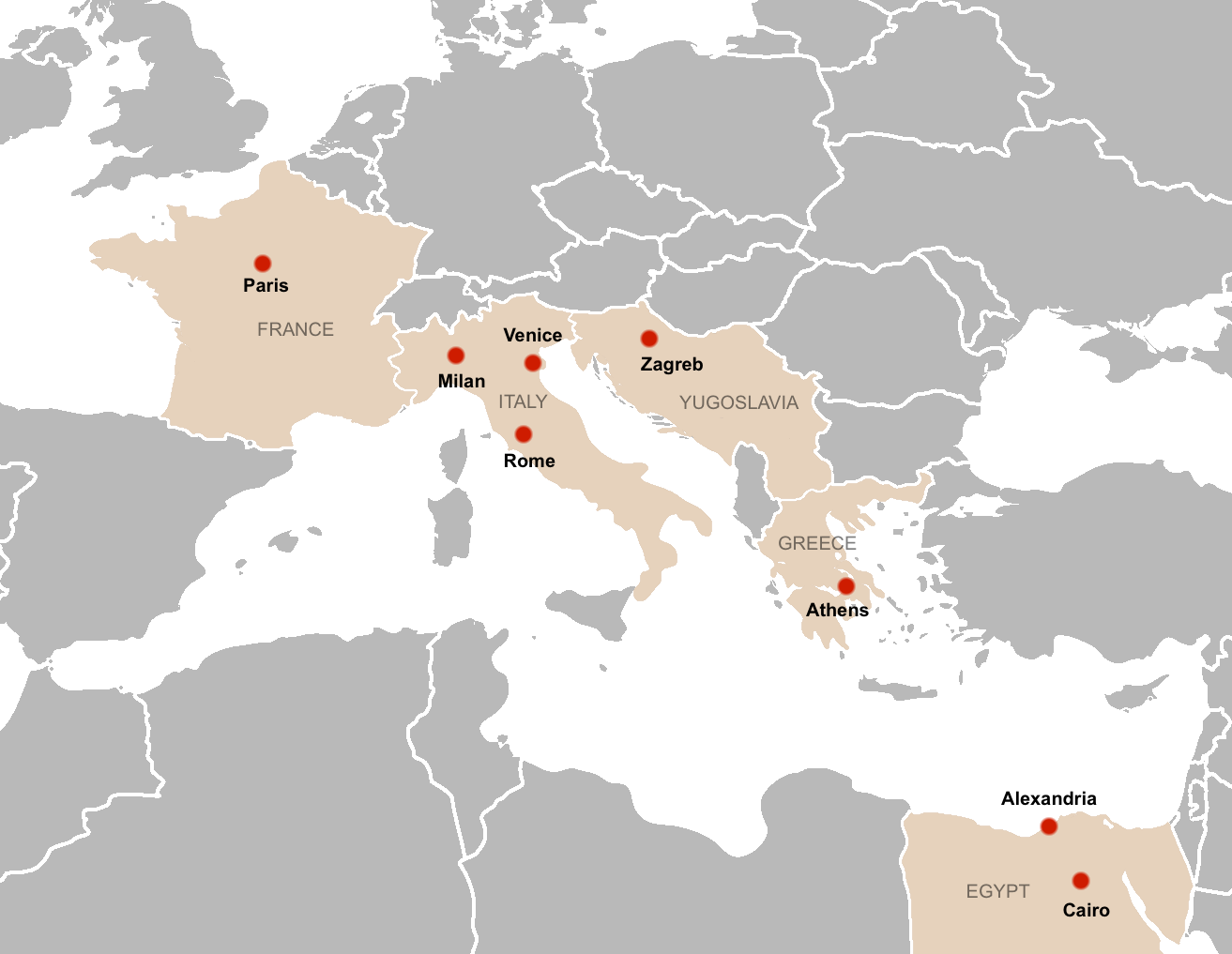 A map of European and Egyptian locations visited during by Maya Angelou to perform Porgy & Bess, as described in her third autobiographical volume Singin' and Swingin' and Gettin' Merry Like Christmas. Derived from File:BlankMap-Europe-v4.png